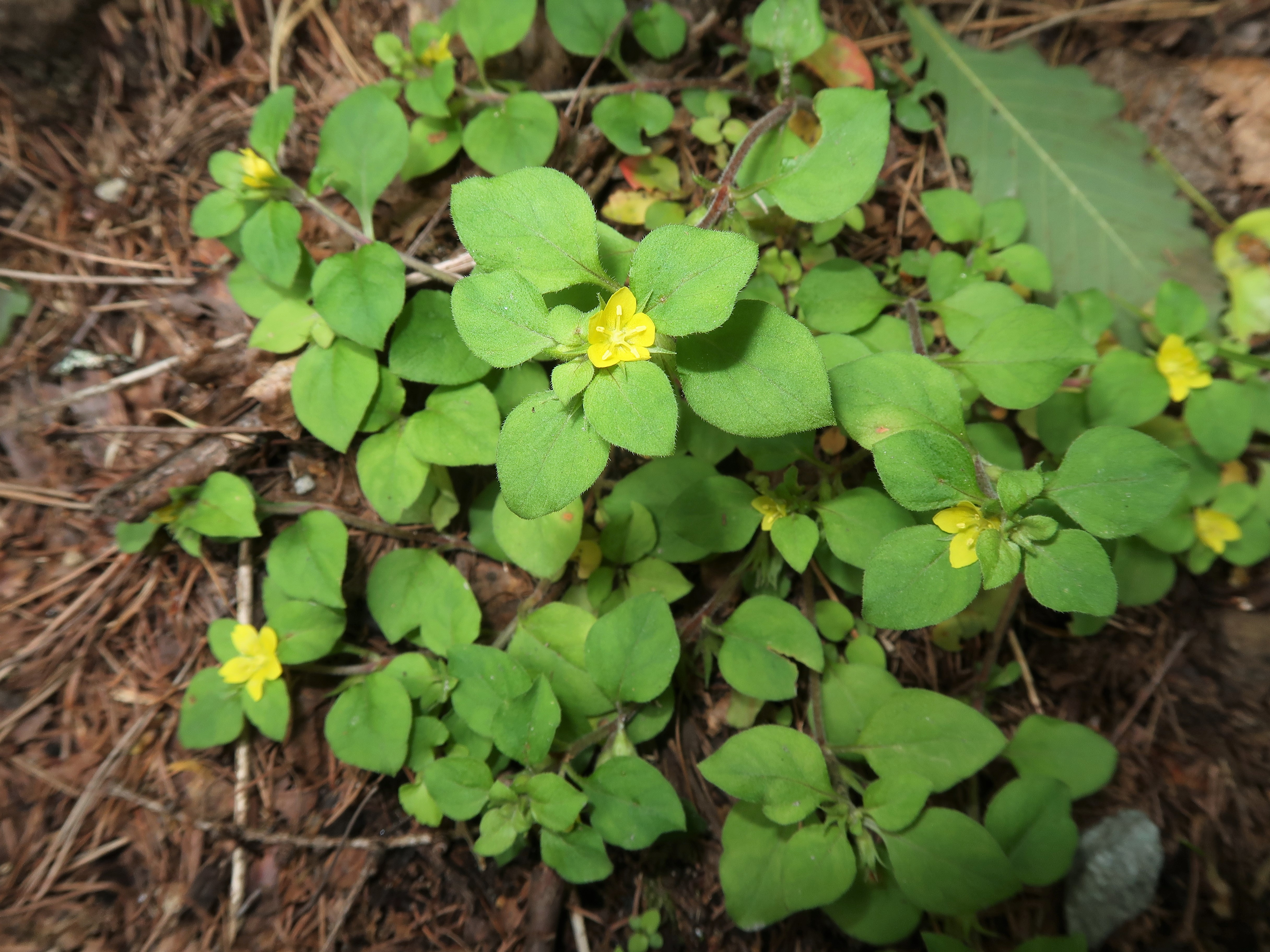 Lysimachia japonica , Aizu area, Fukushima pref., Japan